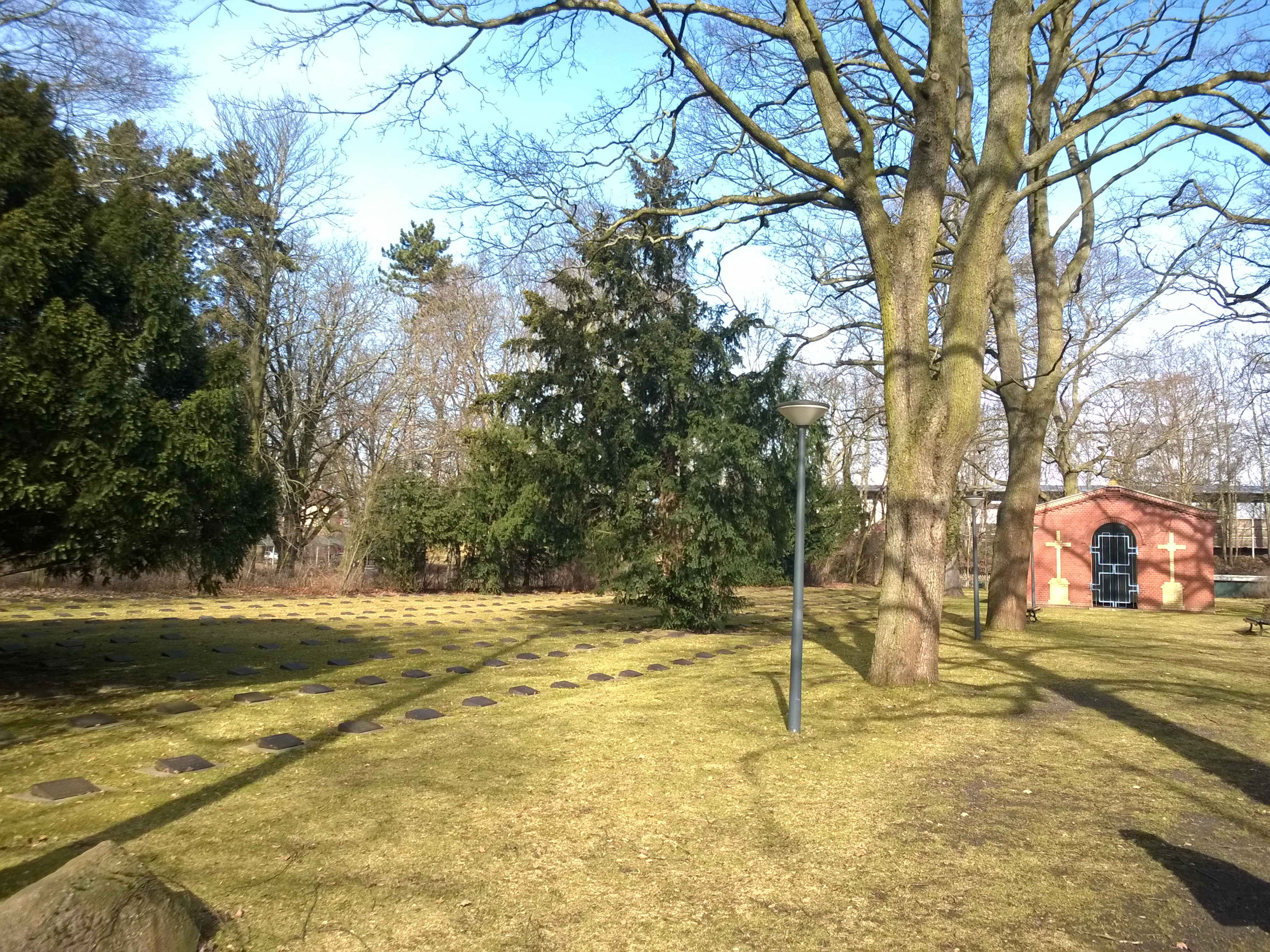 Reinickendorf Freiheitsstraße Kriegsgräberfriedhof Reinickendorf I